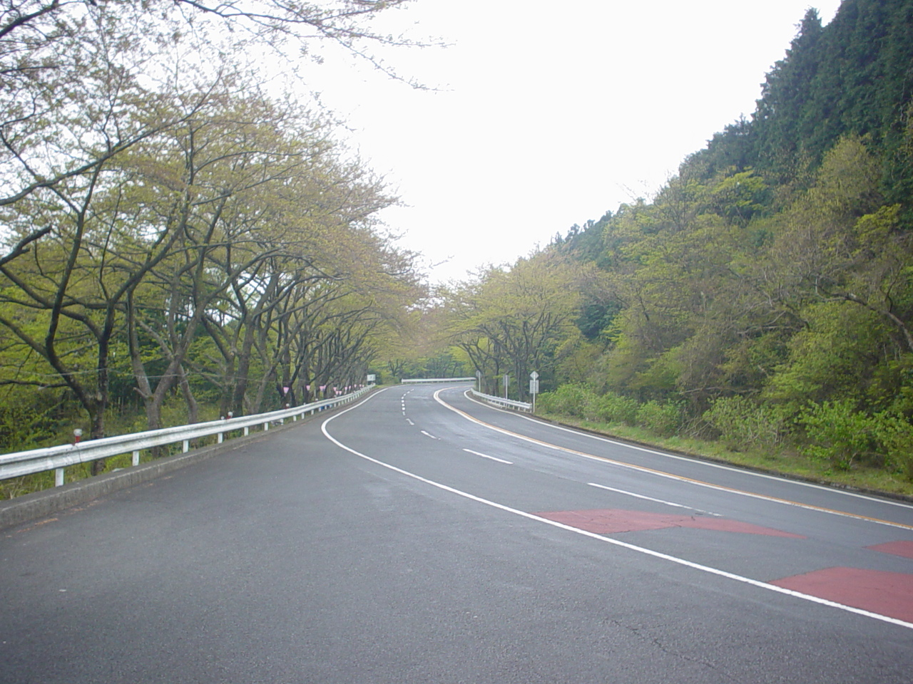 Photo by me.